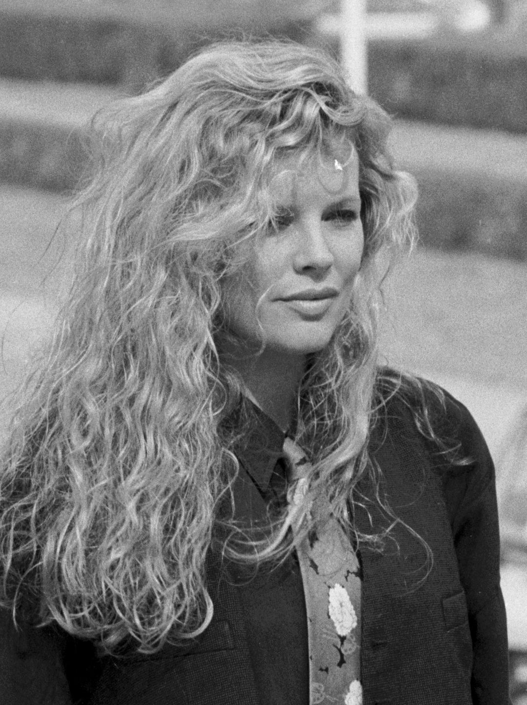 Kim Basinger at the Deauville American Film Festival.